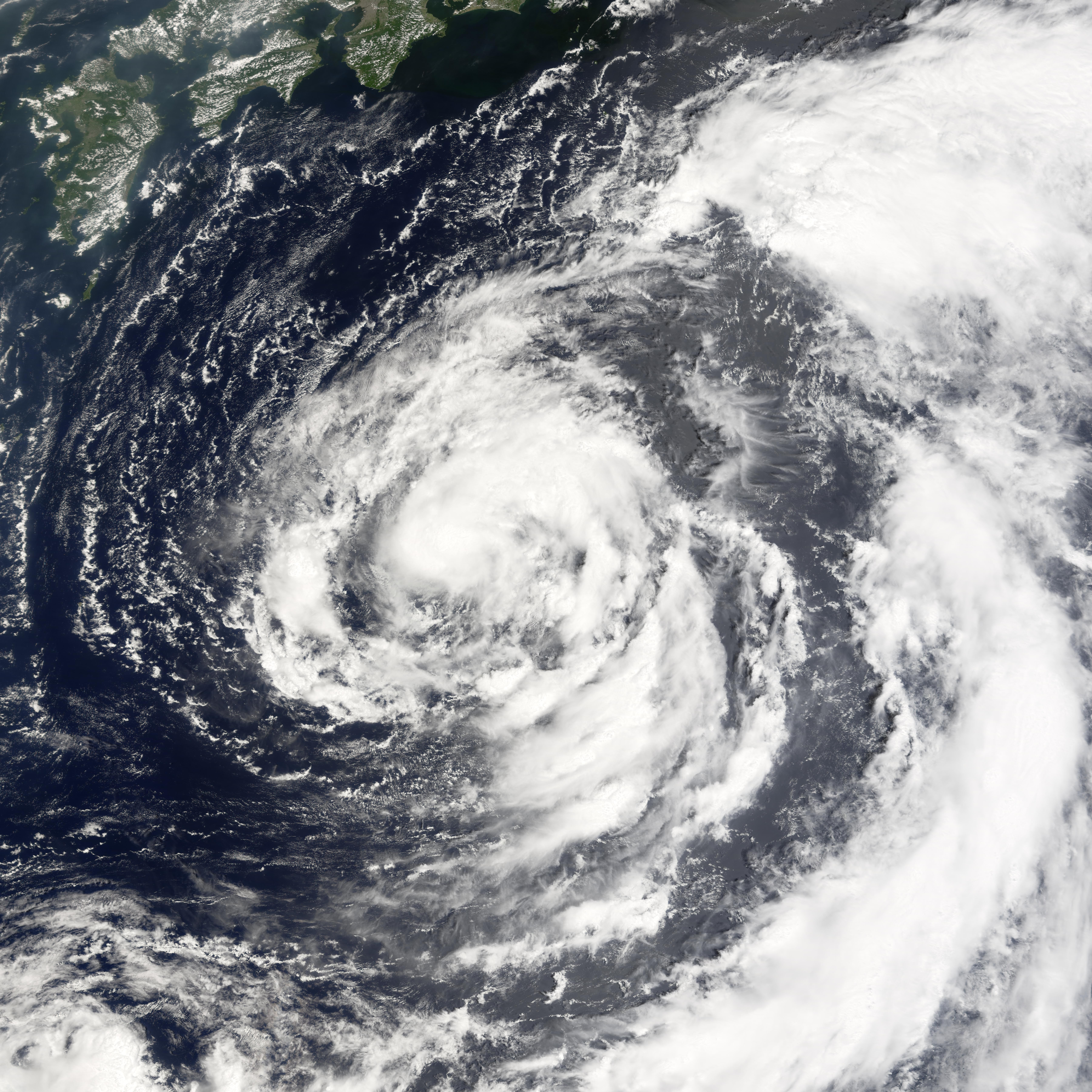 Tropical Storm Wukong formed in the western Pacific on August 12, 2006, as a tropical depression. Within a day, it had become organized enough to be classified as a tropical storm and earn its name. Wukong is the name of the Monkey King in a Chinese legend, “Journey to the West.” As of August 15, Wukong was projected to cross the southern end of the Japanese Islands on August 18. It was not predicted to become significantly more powerful, according to the Shanghai Daily News. This photo-like image was acquired by the Moderate Resolution Imaging Spectroradiometer (MODIS) on the Terra satellite on August 14, 2006, at 10:30 a.m. local time (01:30 UTC). Tropical Storm Wukong at the time of this image was a large, but open and weak system. It appears to have a large outer ring of clouds and storms, and a tighter, smaller ring closer to the center, but these clouds have not wound together or developed the strong circulation and spiral-arm cloud structures of a typhoon. No well-defined eye occupies the storm’s center. Tropical Storm Wukong had sustained winds of around 80 kilometers per hour (50 miles per hour) near the time of this image, according to the University of Hawaii’s Tropical Storm Information Center.